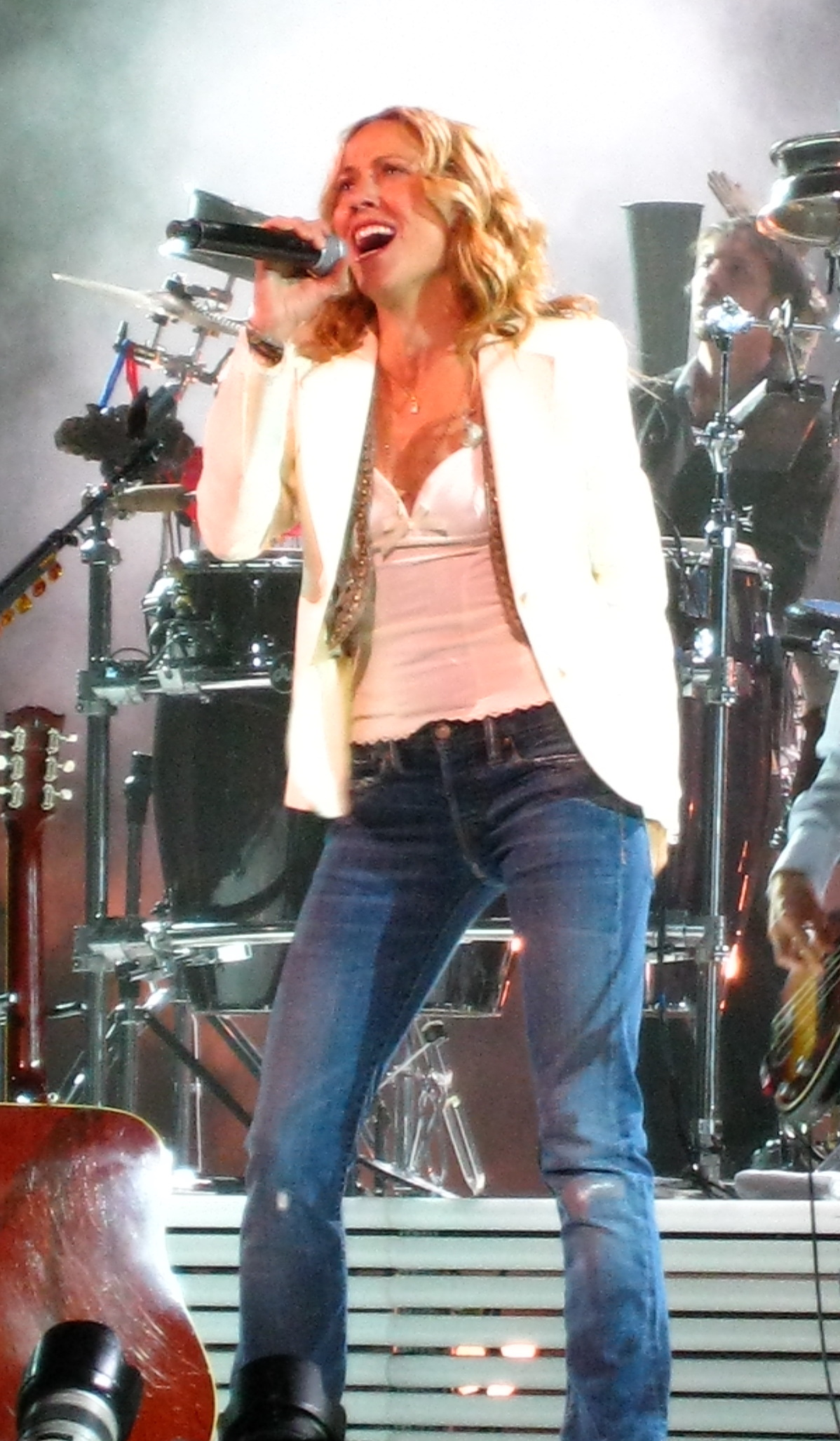 Sheryl Crow : Detours Concert at Bell Centre, Montreal, Canada.